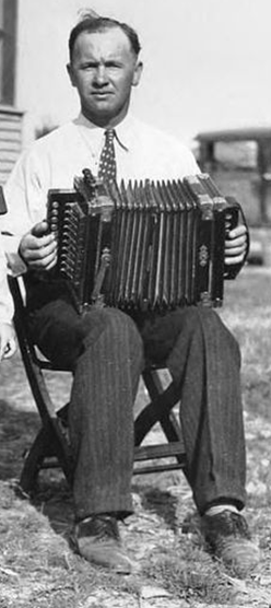 Part of a picture in which are shown Joe Falcon with his wife Cleoma Breaux and his daughter Loulu Falcon.